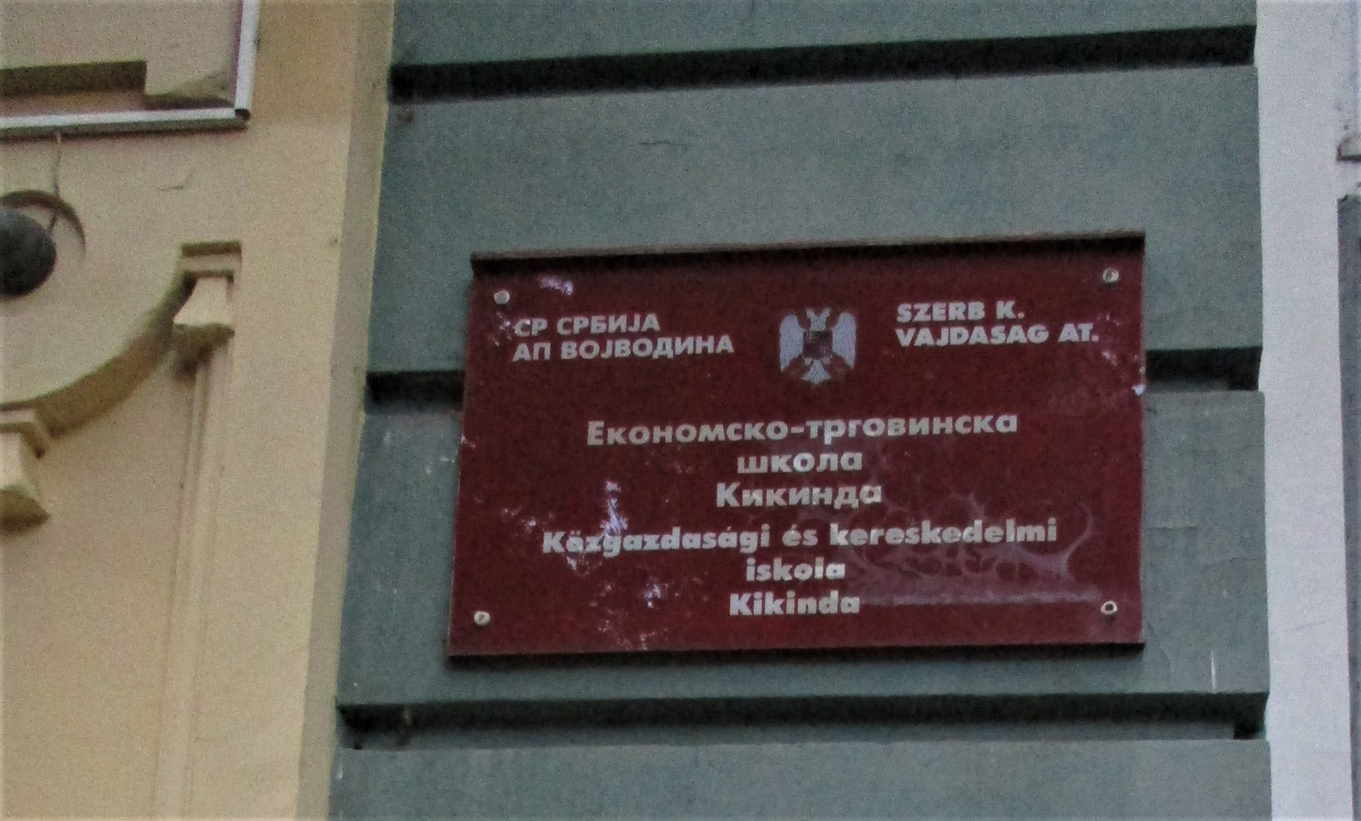 Board, Economic school in Kikinda.